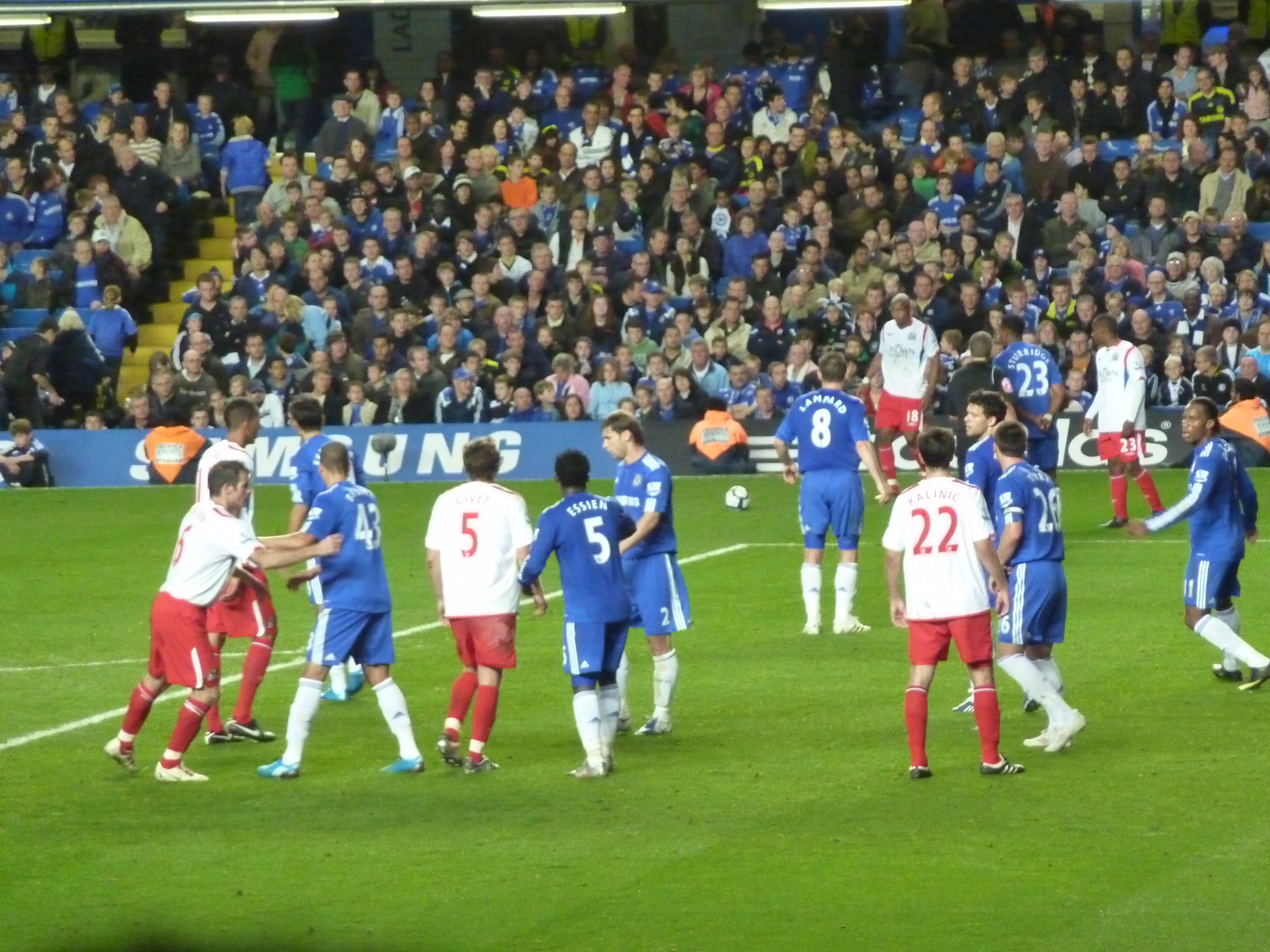 Chelsea vs Blackburn 24 October 2009